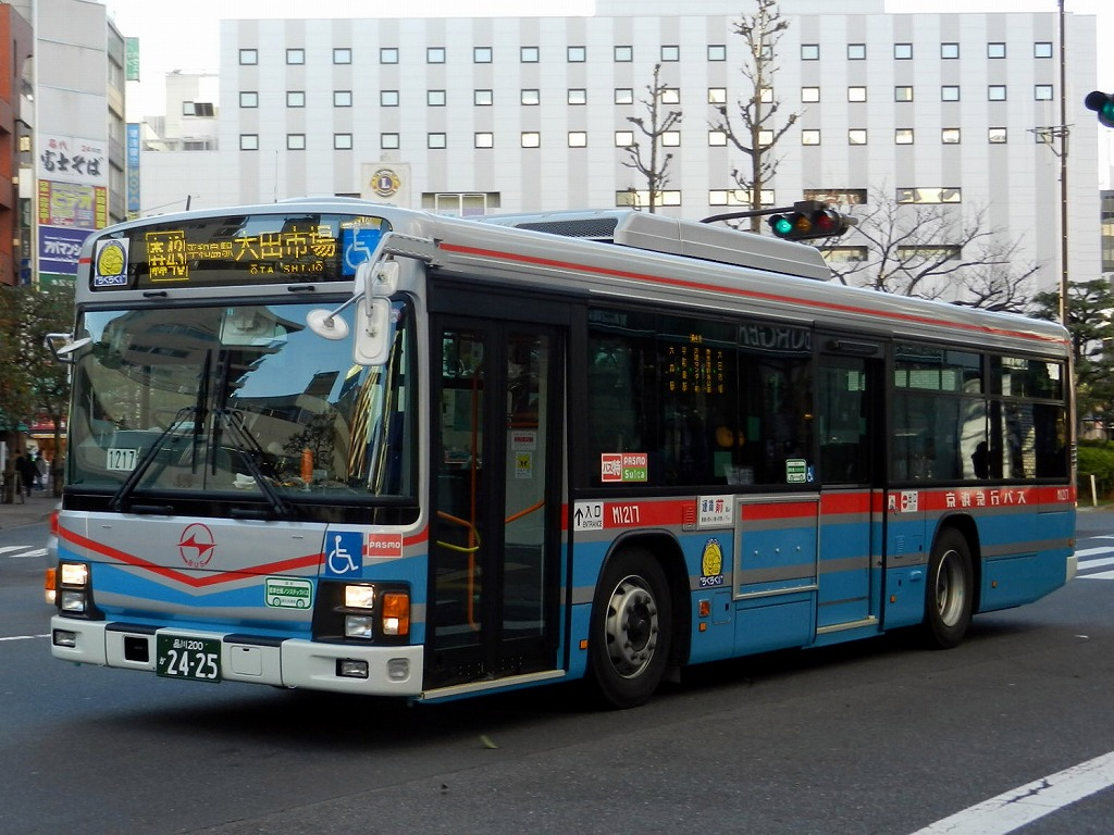 Keihin Kyuko bus (Omori depot) Isuzu Erga Nonstep bus(LKG-LV234L3)